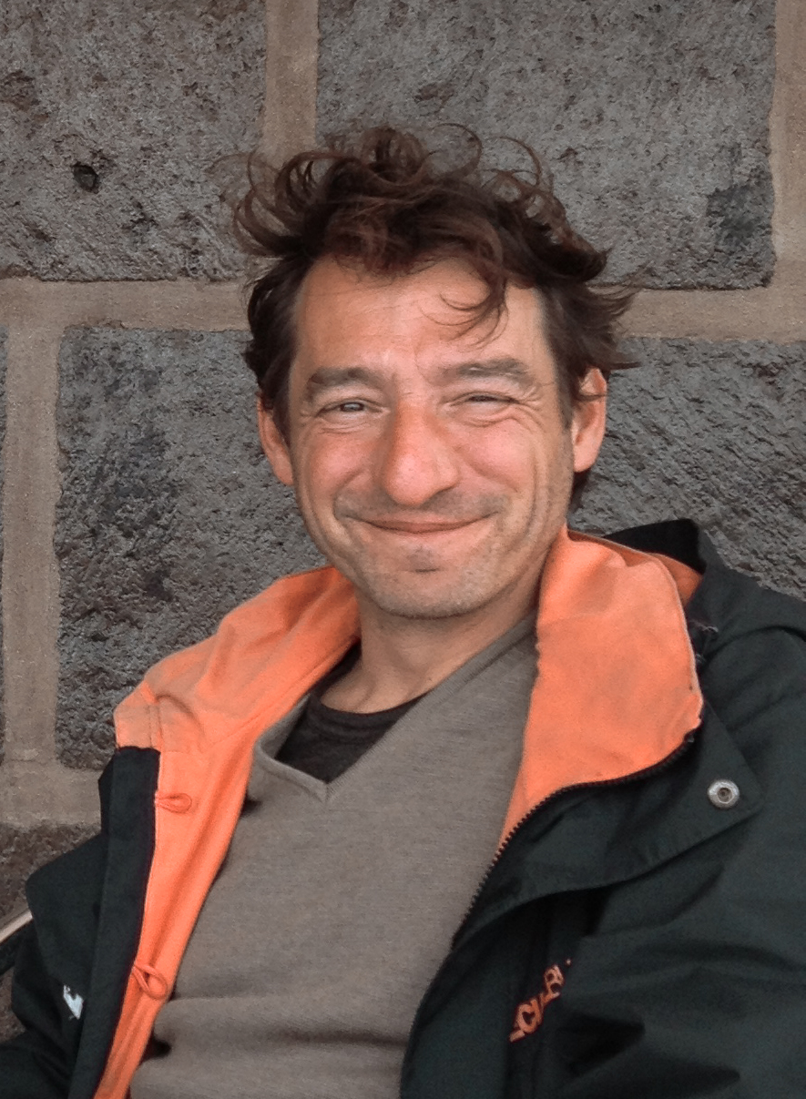 Cran Canaria after Sailing